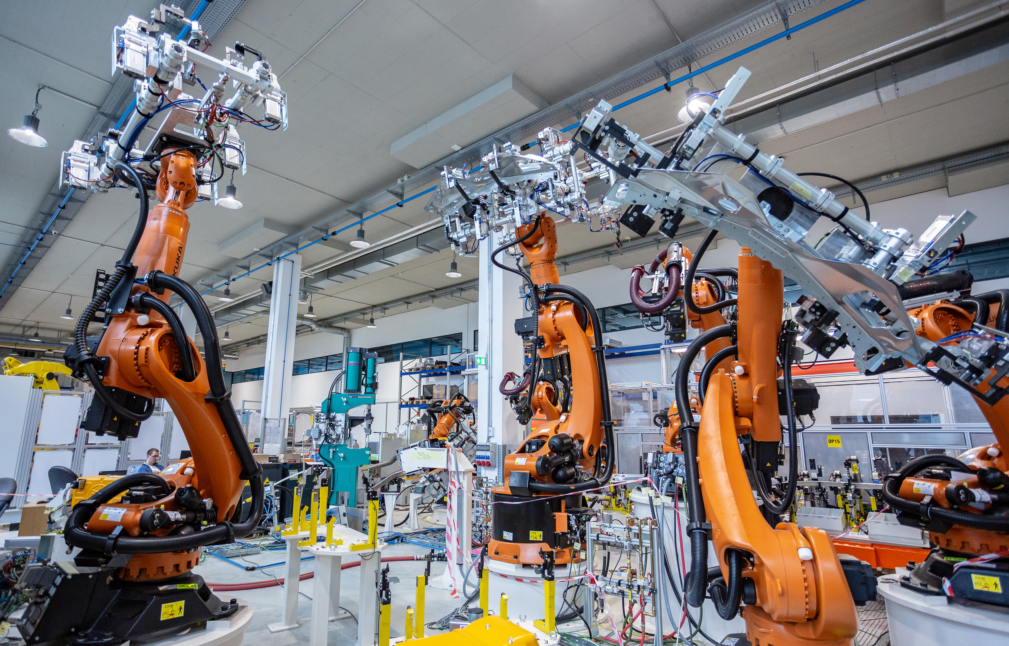 Production line in AIUT